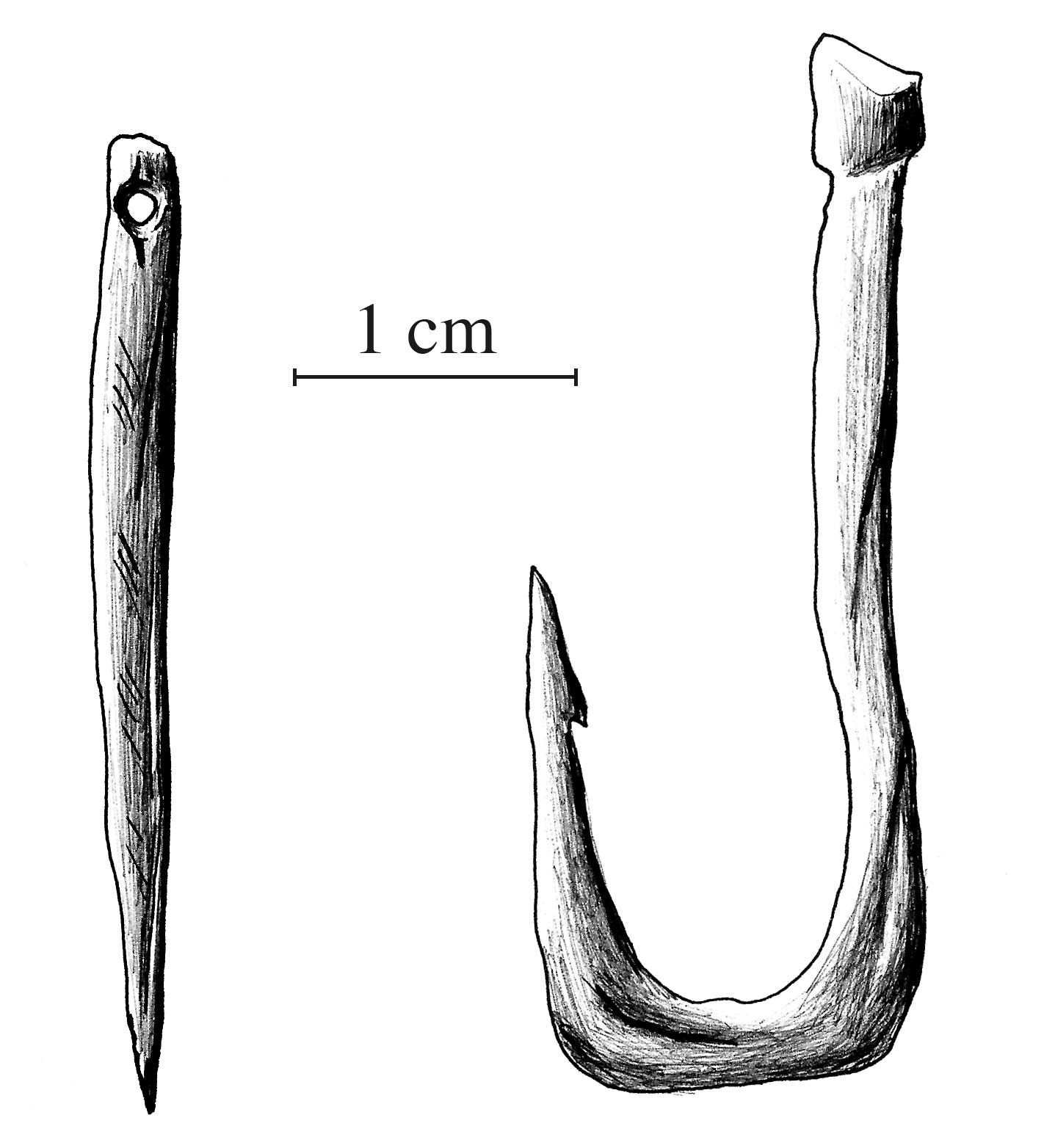 Little bone artifacts at Upper paleolithic: bone neddle and bone fishhook